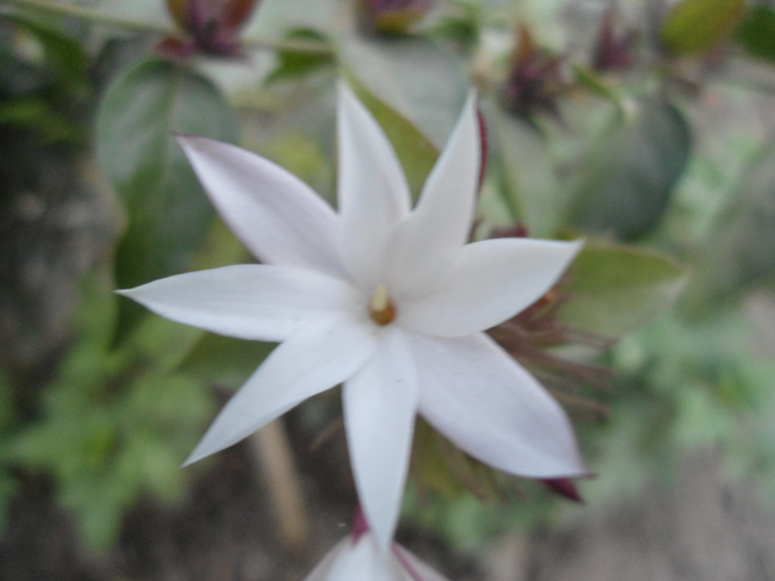 small white colour flower in Nepali garden